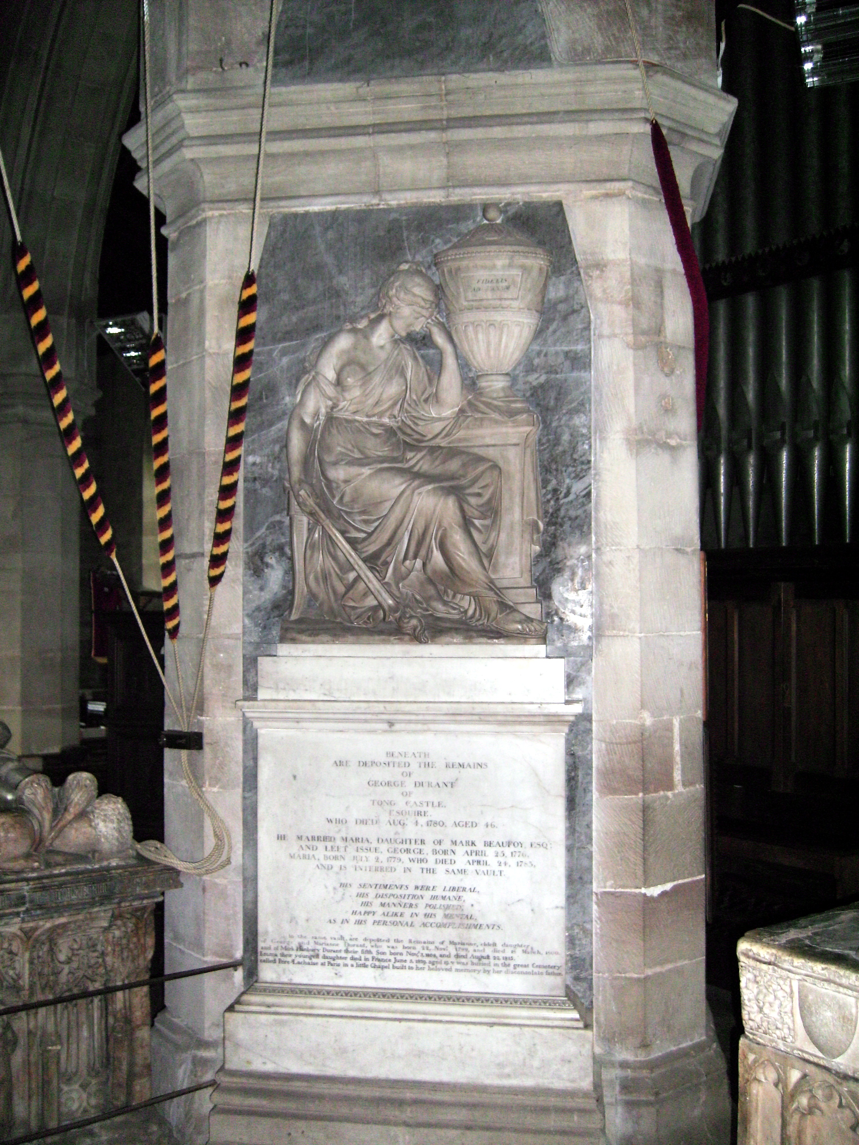 Memorial in St Bartholomew's Church, Tong, Shropshire, to George Durant, who bought the Tong estate in 1760.